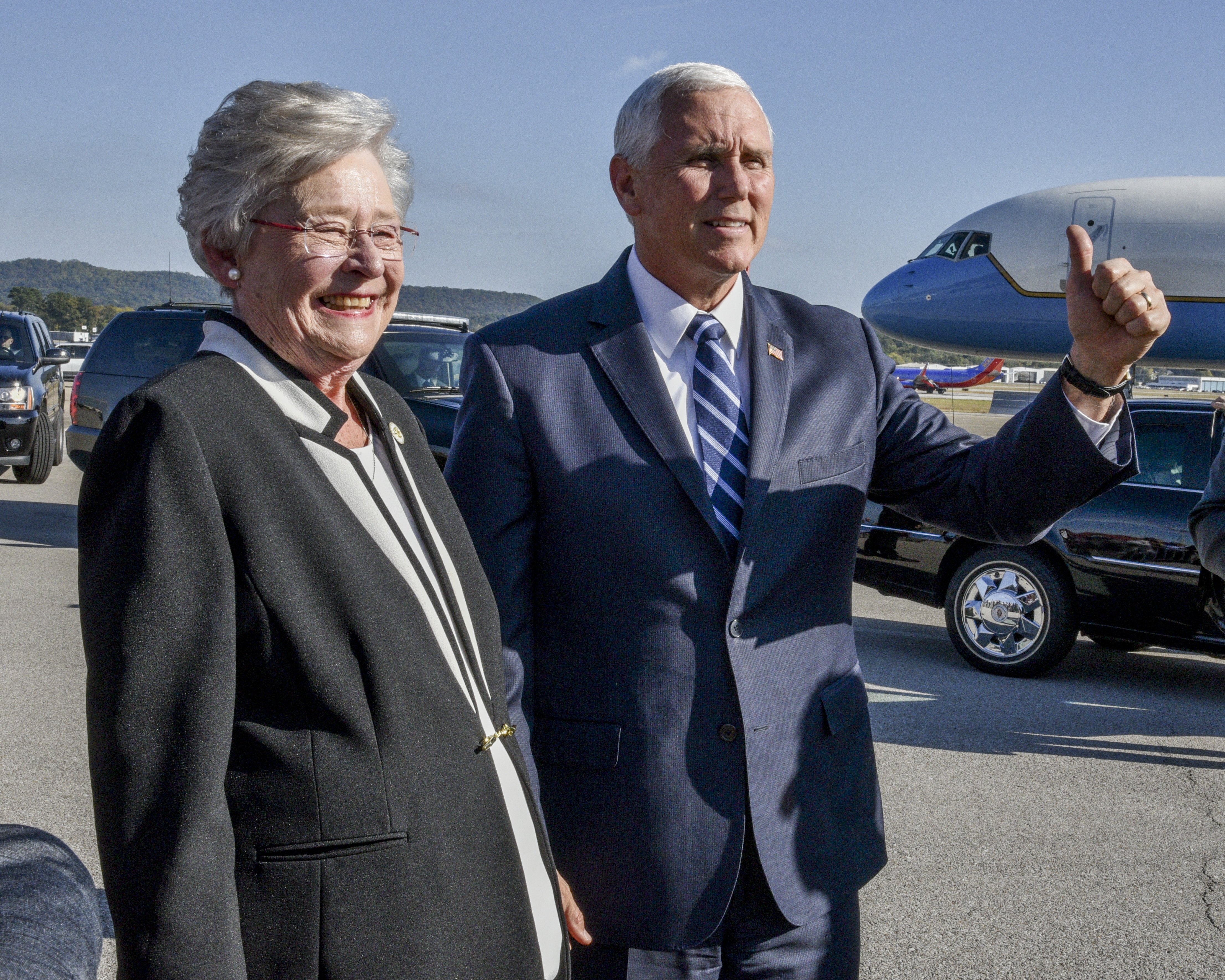 Vice President Mike Pence and Alabama Governor Kay Ivey speaks to the local media at Sumpter Smith ANGB, Birmingham, Alabama October 30, 2018. (U.S. Air National Guard photo by Ken Johnson)